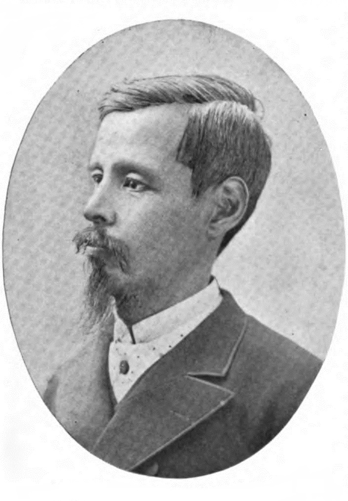 Mutsu Munemitsu